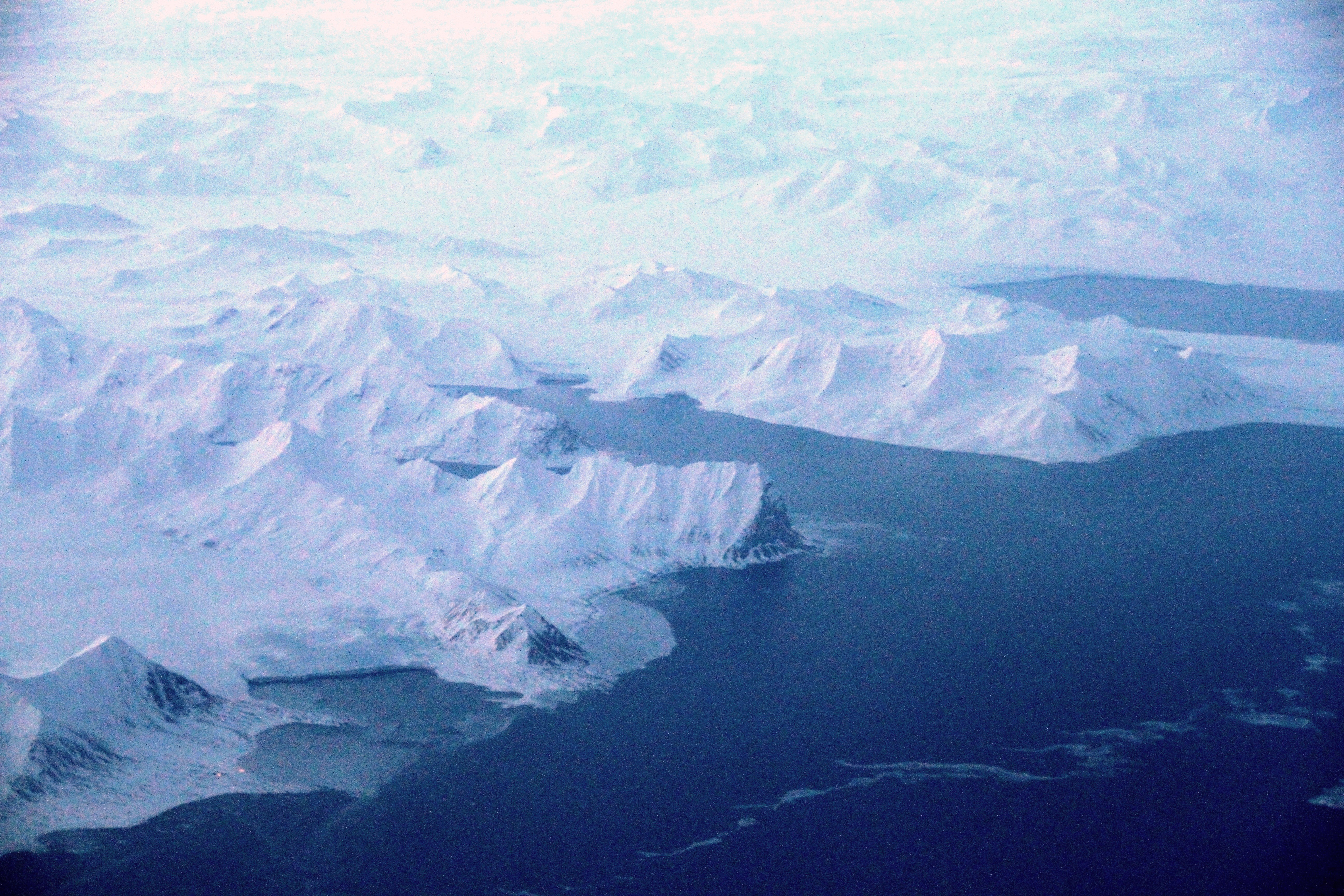 Inner parts of Hornsund fjord, at southern Spitsbergen, seen from the west towards the east. Late evining / night. Svalbard, Norway.